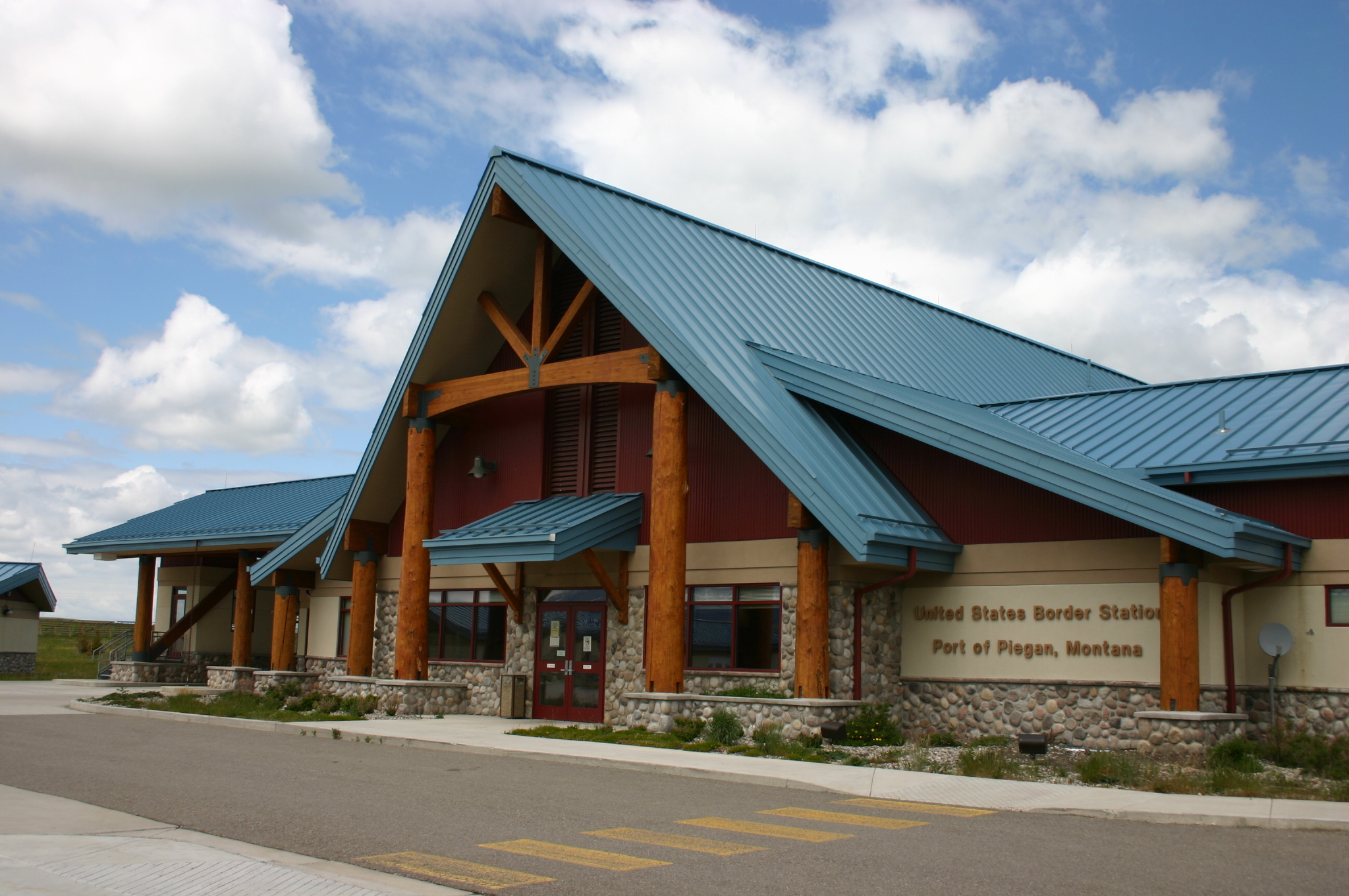 Port of Piegan Border Station, Montana, U.S. Route 89 near the Canadian border Babb